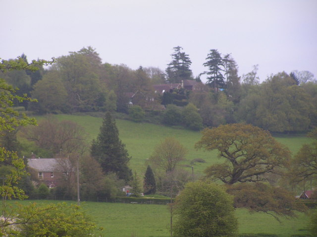 Haremere Hall across the Fields. Sussex scenery